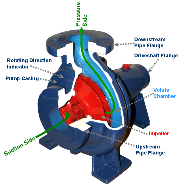 Parts of a centrifugal pump. Photo taken from a model found at Delmenhorst (GER) waterworks. Nomenclature added myself